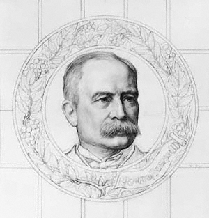 Portrait of Robert Rowand Anderson